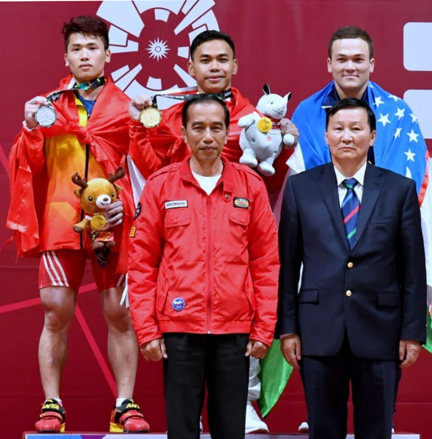 Weightlifting at the 2018 Asian Games – Men's 62 kg